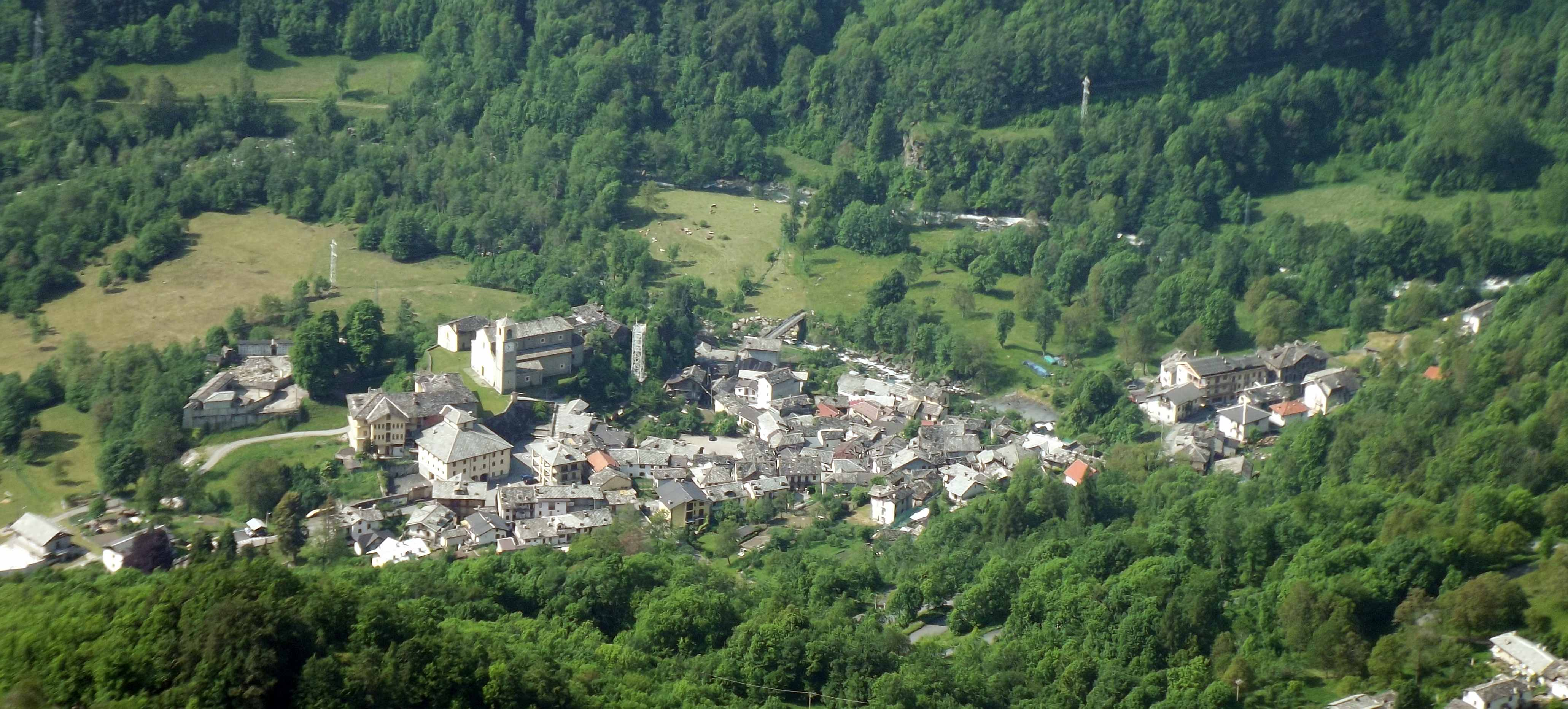 Lemie (TO, Italy): panorama from cima Montù